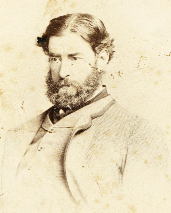 Samuel Thomas Gill, c.1865, by unknown, carte de visite albumen print, State Library of New South Wales PXA 362